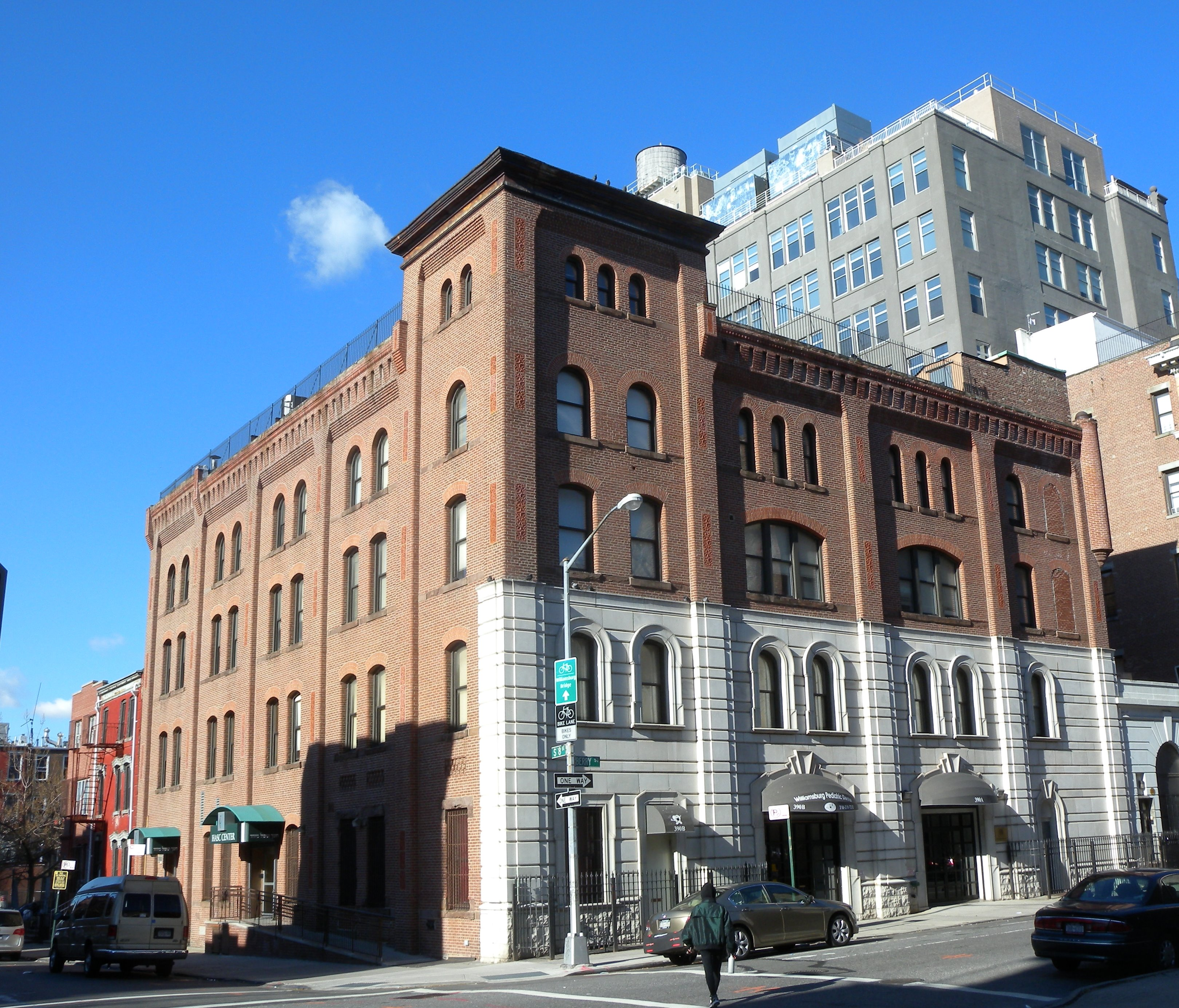 Looking northwest across Berry and South 8th Sts at Hebrew Academy for Special Children on a sunny midday.